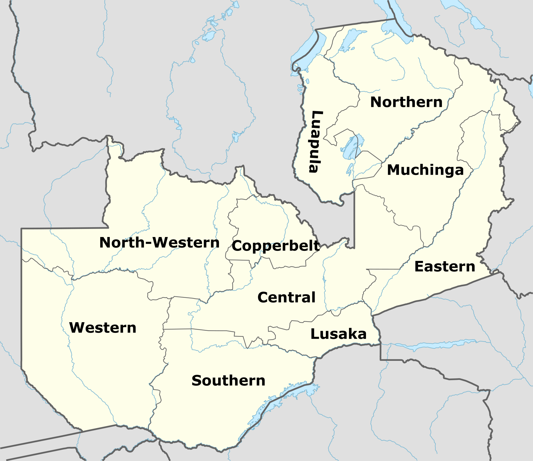 Map of the provinces of Zambia in English (local language). Made by User:Golbez.